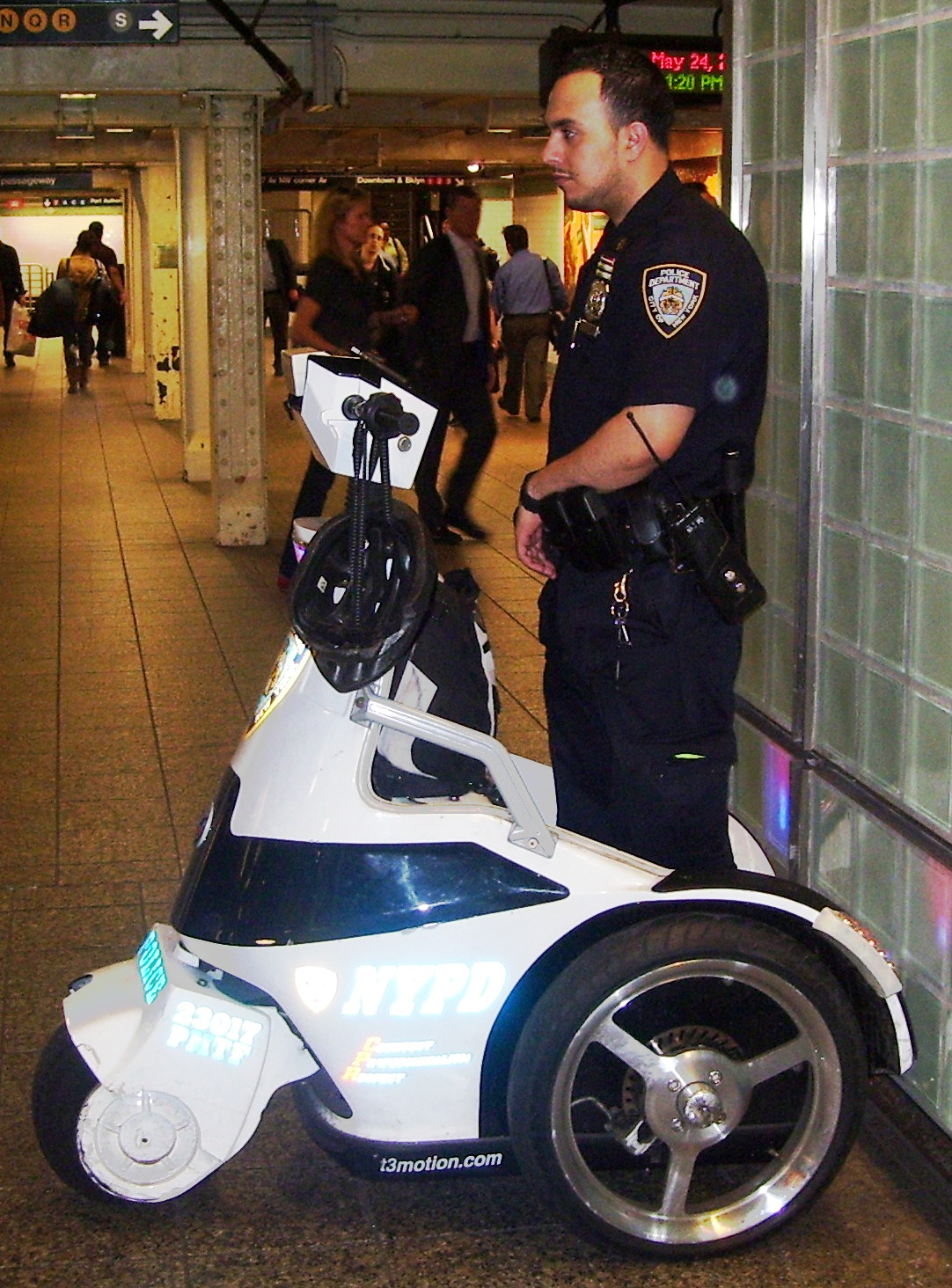 A NYPD three-wheeled vehicle used in subway stations, seen in the Times Square station.